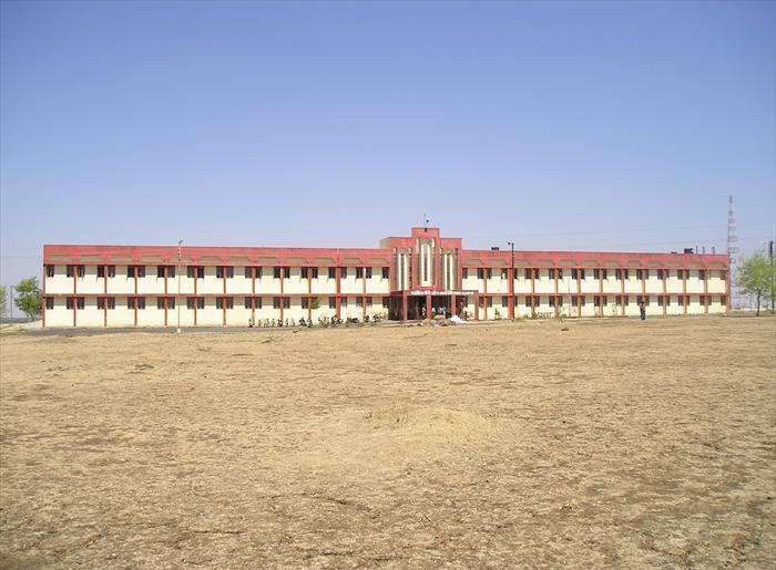 DPD College Main Campus